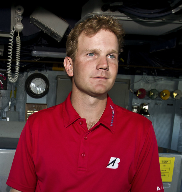 PGA Professional Billy Hurley III stands on the bridge of the USS Chung-Hoon where he once served as U.S. Navy Lt., Jan. 9, 2012, here at Joint Base Pearl Harbor-Hickam. Hurley graduated from the U.S. Naval Academy in 2004 and served as a division officer aboard the USS Chung-Hoon (DDG-93) before leaving the Navy in 2009 to pursue his dream of becoming a professional golfer.